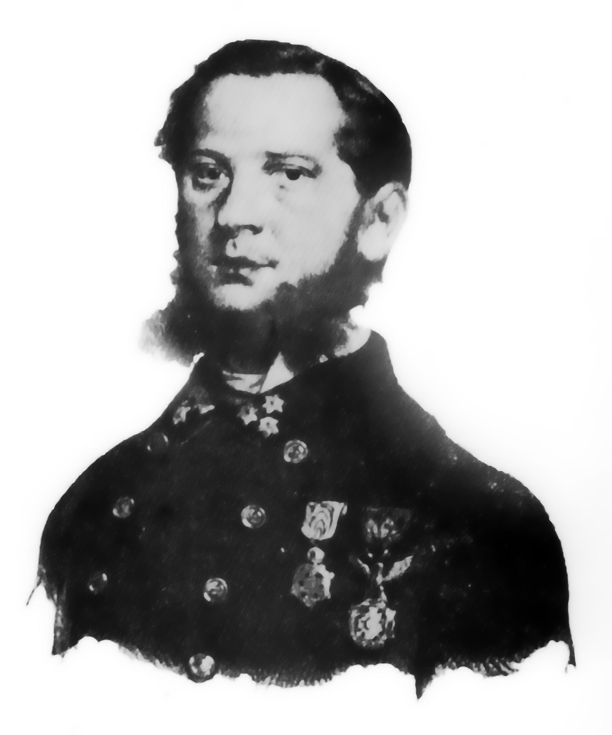 Heinrich Wawra von Fernsee